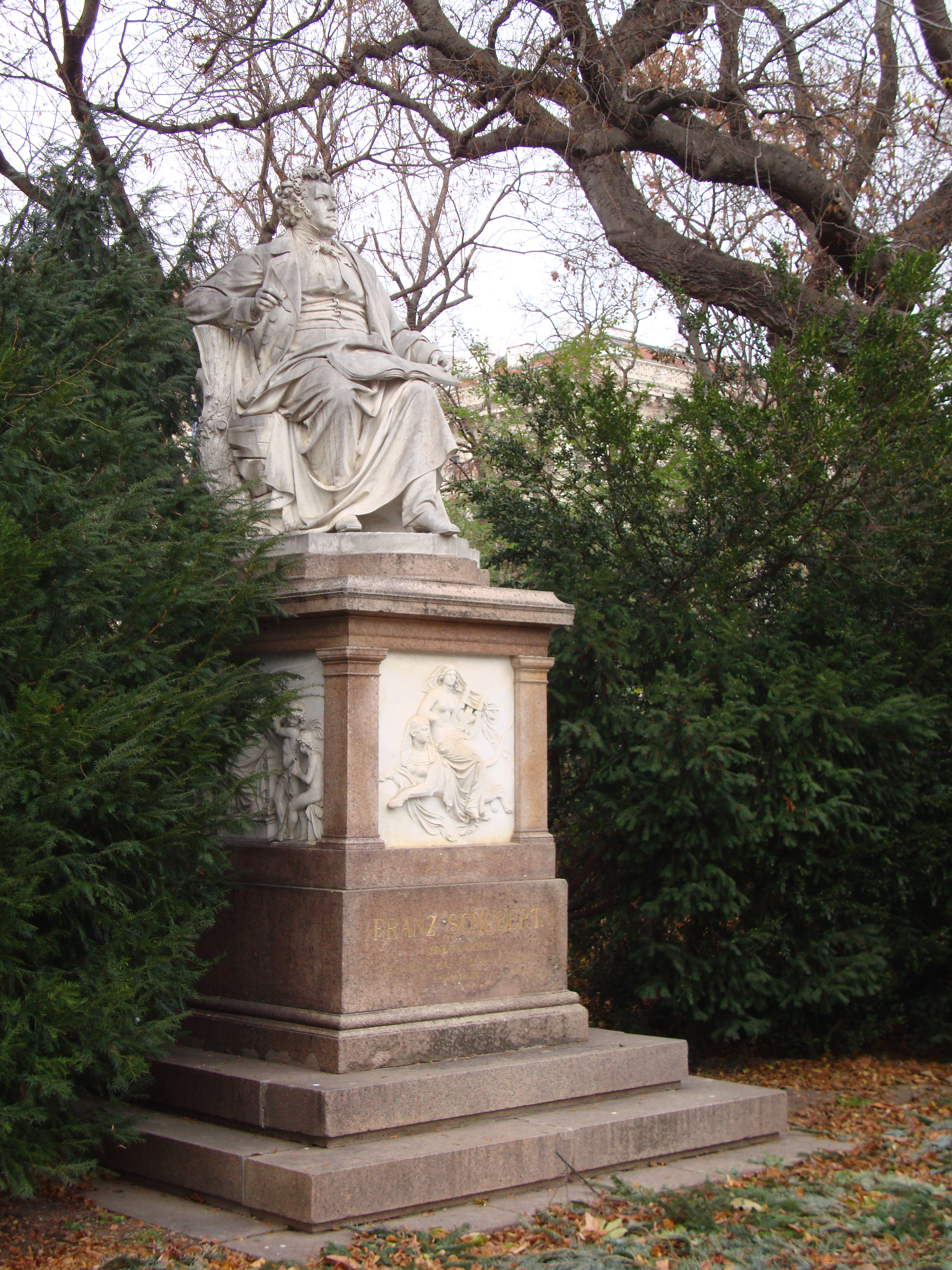 Kundmann Dumba